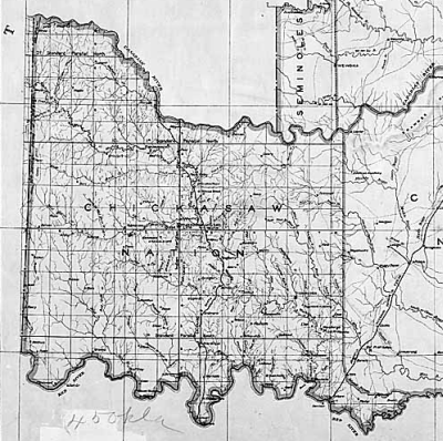 Detail of 1891 map from the National Archives and is in the Public Domain.